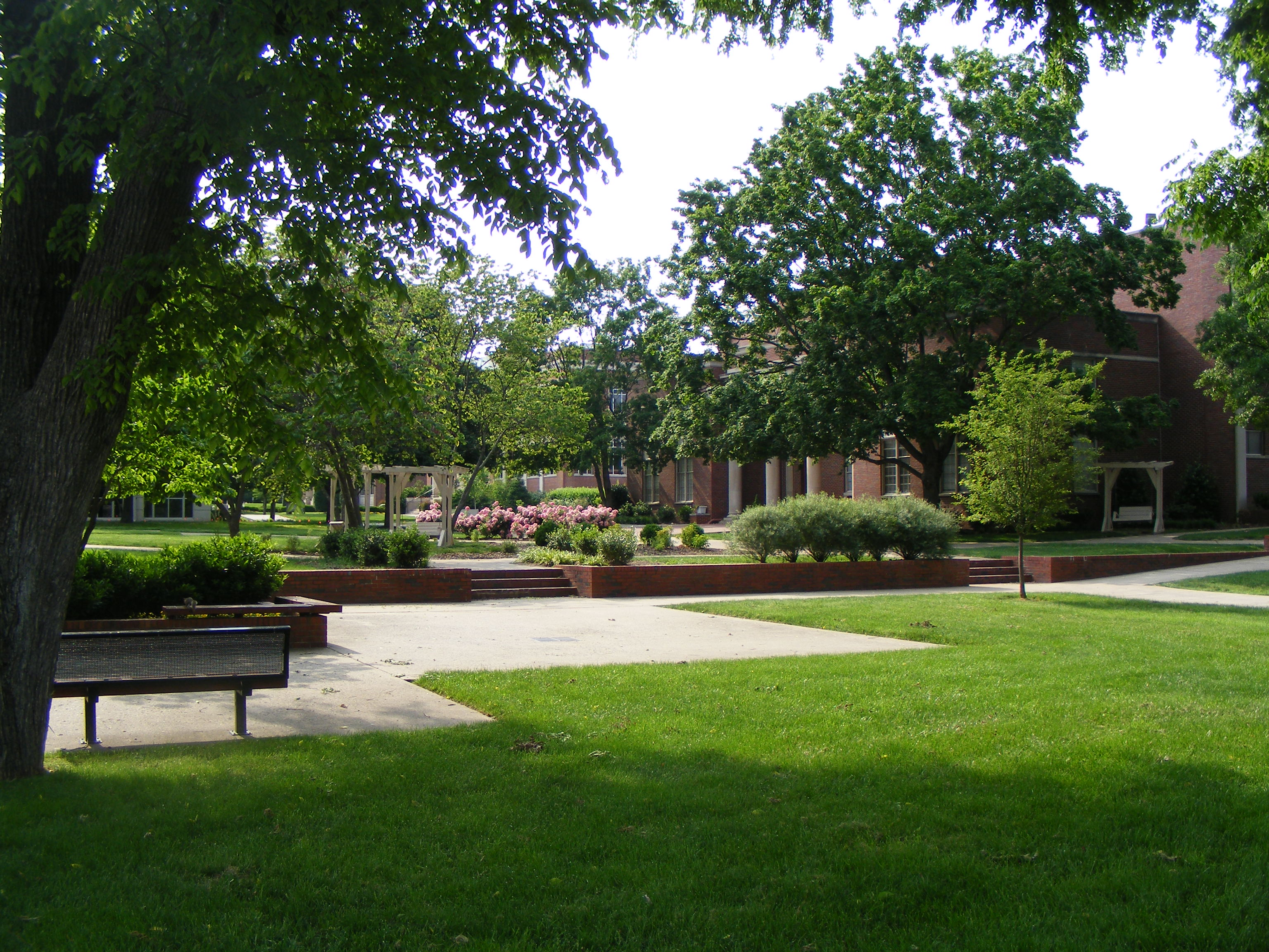 Lipscomb University in Nashville, Tennessee.